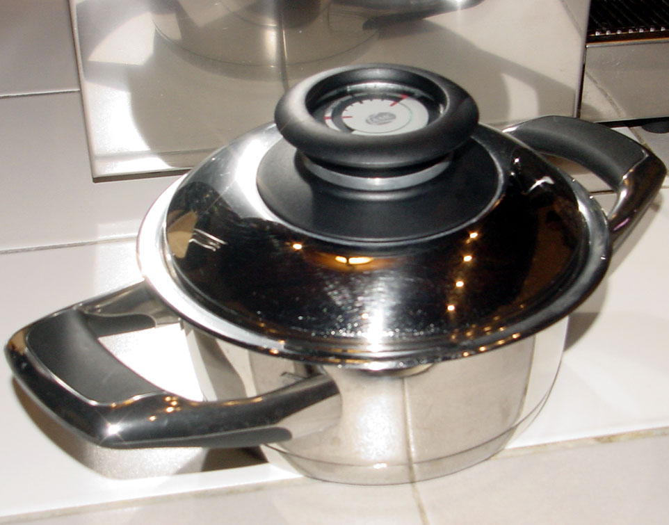 Used AMC pot